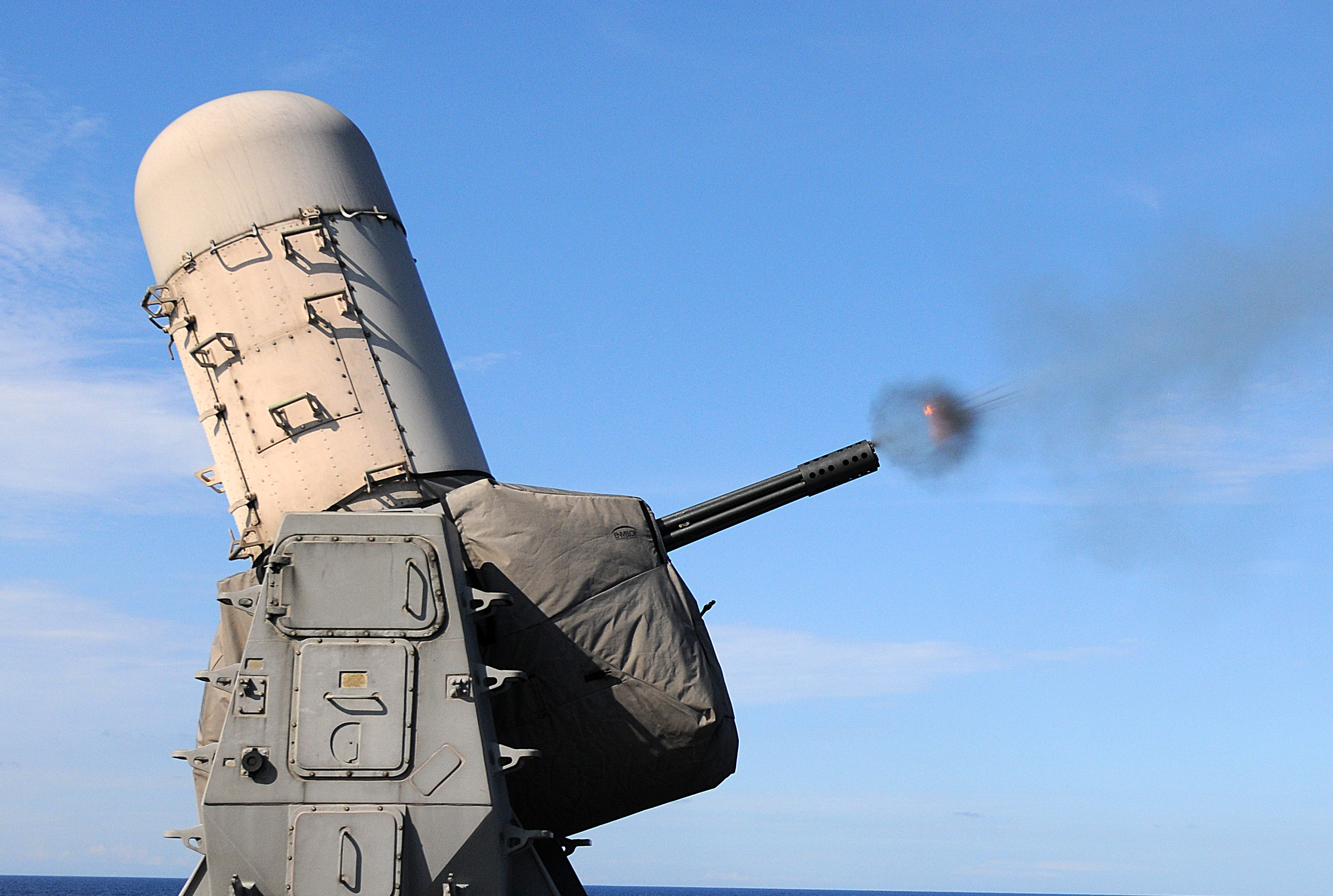 CARIBBEAN SEA (August 25, 2012) The close-in weapons system fires during a live-fire exercise aboard the Oliver Hazard Perry-class guided-missile frigate USS Underwood (FFG 36). Underwood is deployed to Central and South America and the Caribbean in support of Operation Martillo and the U.S. 4th fleet mission, Southern Seas 2012. (U.S. Navy photo by Mass Communication Specialist 3rd Class Frank J. Pikul/Released) 120825-N-ZE938-055 Join the conversation navylive.dodlive.mil